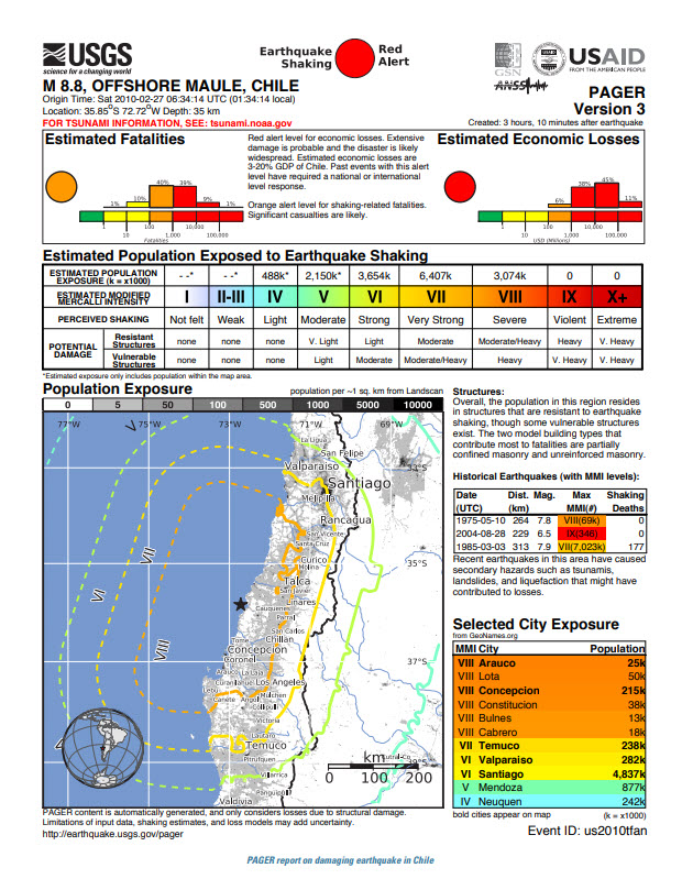 PAGER system example report (based on information about M8.8 Earthquake at Chile)